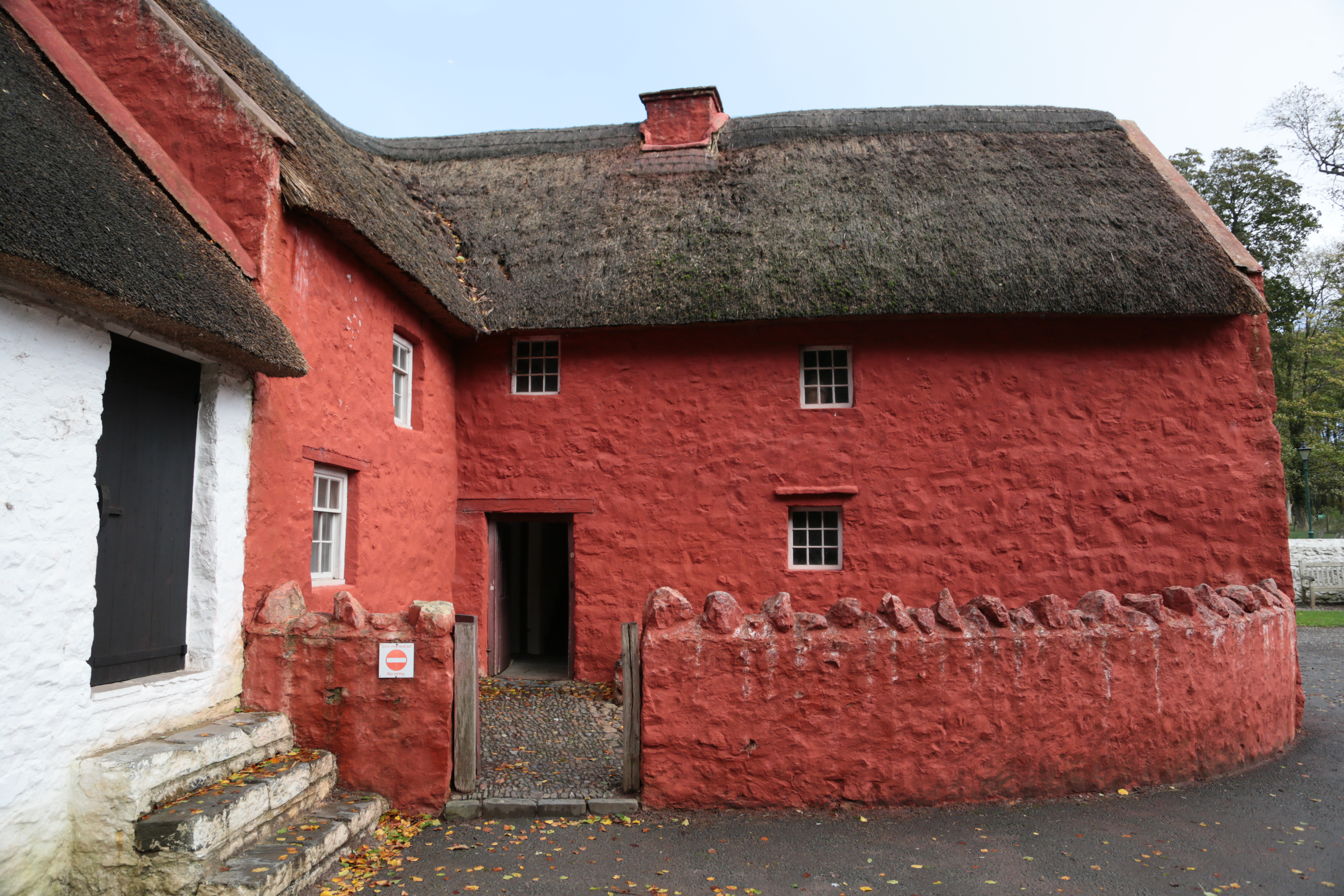 St Fagans National History Museum